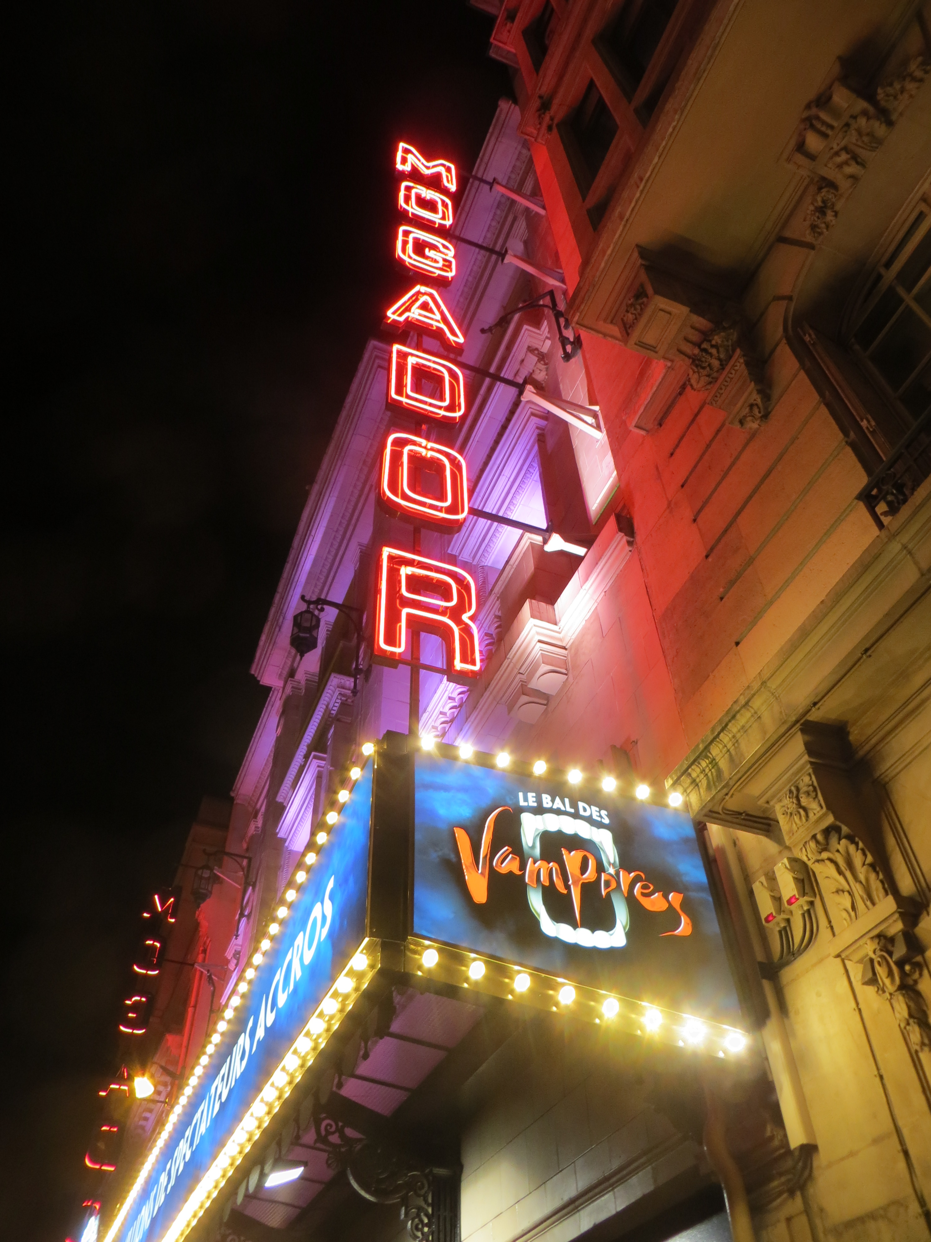 Dance of the Vampires (Mogador Theatre, Paris, 2014)